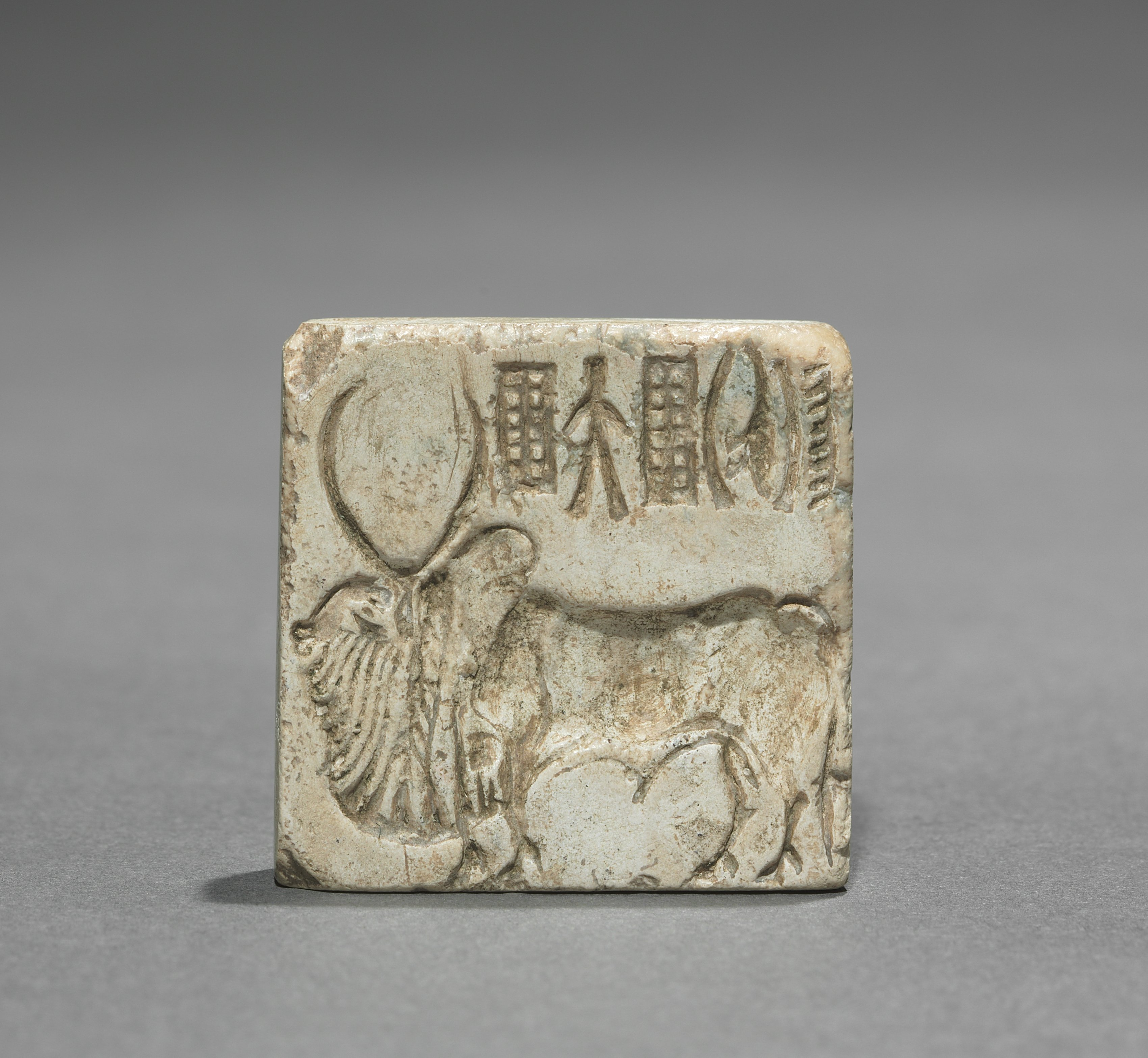 Small stone seals, probably used to identify merchandise or property, are among the most numerous objects discovered from the mysterious proto-historic sites along the banks of the Indus River system. Like these, most have sensitively rendered animal imagery along with an inscription written in a script that has not yet been deciphered.